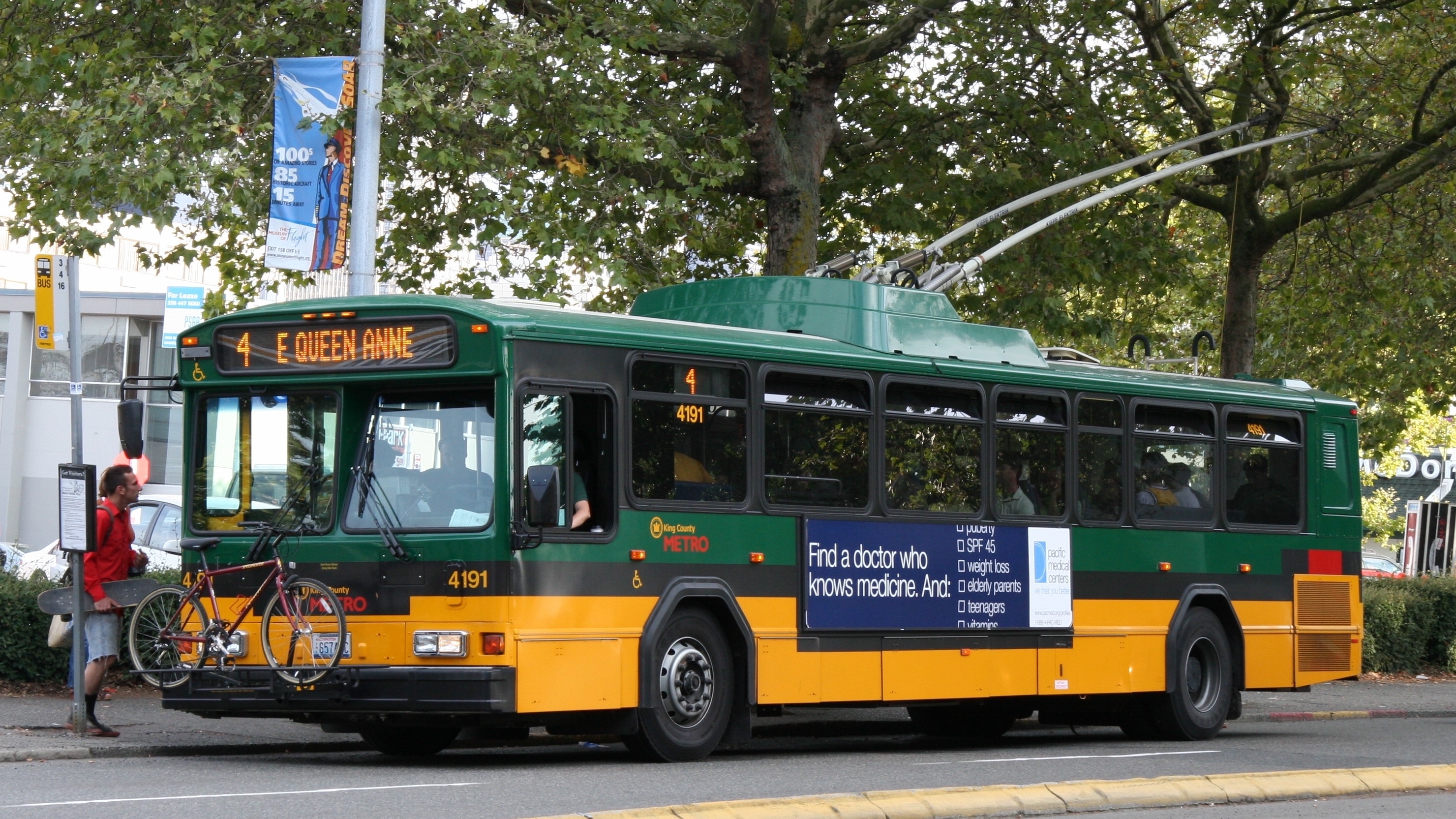 King County Metro trolleybus